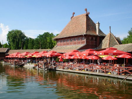 Women's Beach at lake Palić.